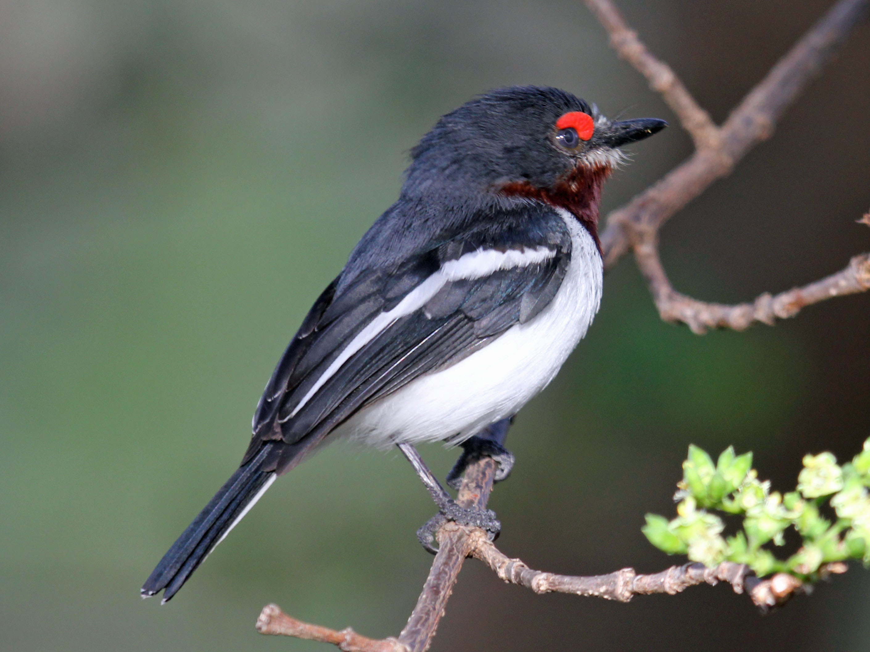 Female Black-throated Wattle-eye (Platysteira peltata) - Keekorok Lodge in the Masai Mara, Kenya